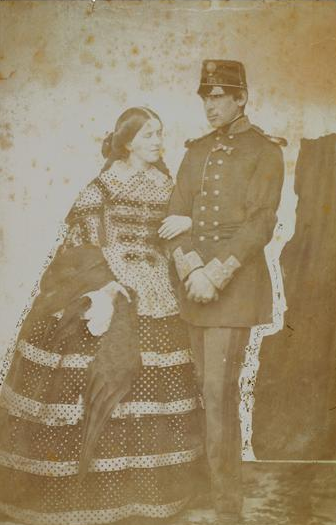 King Peter V of Portugal, with Queen Stephanie of Hohenzollern-Sigmaringen.